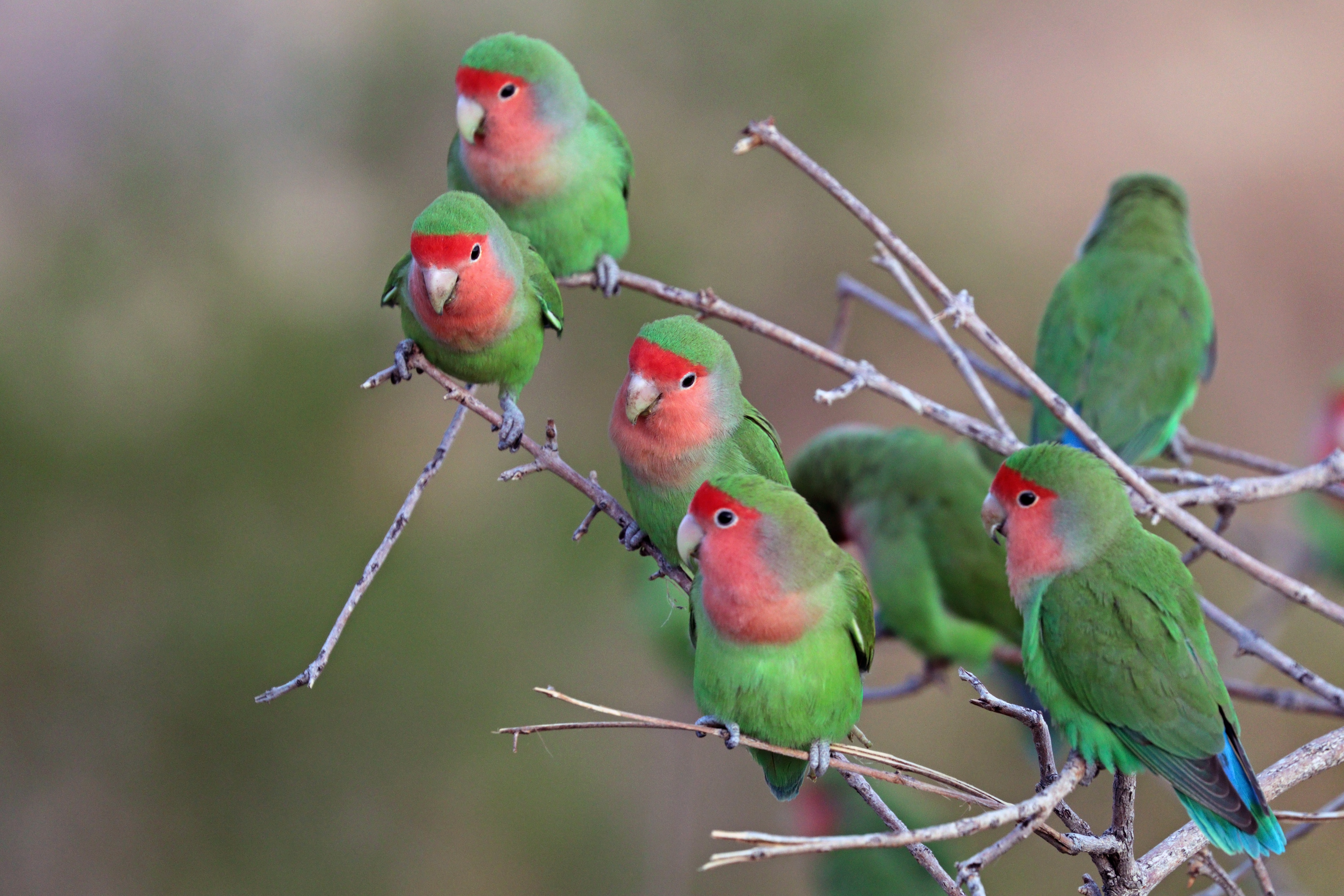 Flock of rosy-faced lovebirds (Agapornis roseicollis roseicollis), Erongo, Namibia